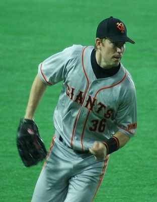 John Bowker